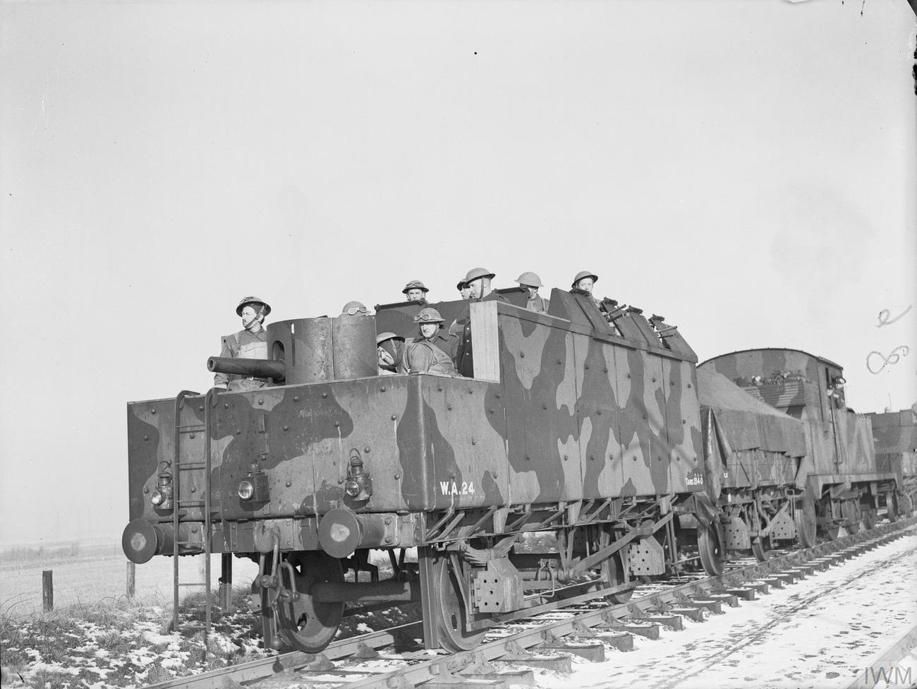 Polish troops manning a camouflaged armoured train at Berwick, Scotland. The truck is mounted with a 6-pounder tank gun, anti-tank rifles and Bren guns. For view from above see File:Polish troops in armoured train UK 1941 IWM H 7034.jpg